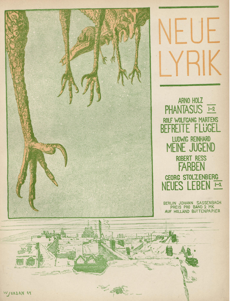 Neue Lyric, poster designed by Wilhelm Jordan (1871-1927) - insert as an advertising in Pan, 1898-1899, issue 4.